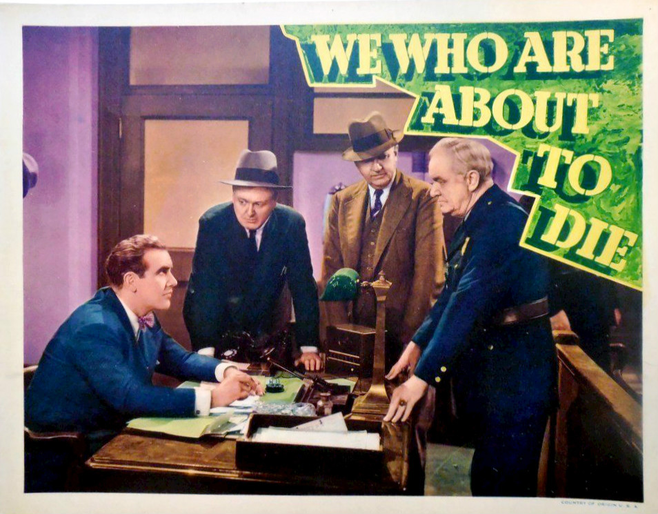 Lobby card for the 1937 film We who Are About to Die. There are no copyright marks as can be seen at the links. At bottom right is Country of origin USA.